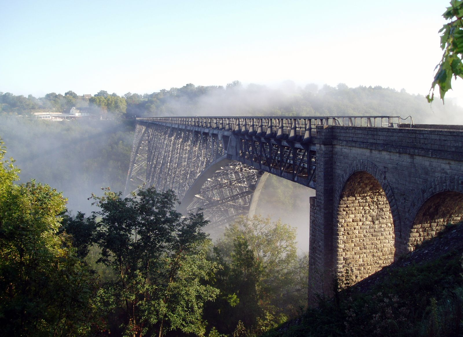 Just as the mist clears. The Viaur Viaduct in the Aveyron department of France, along with the Eiffel Tower and the Gabarit Viaduct, stands as one of the ?Big Three? of French metalic structures. The first stone was laid on 3rd May 1895 and the bridge opened on 5th October 1902. The factoid essentials are a central span of 220 metres, a total span of 410 metres over a gorge 116 metres deep. A million hand driven rivets hold together 3734 tonnes ( say around half an Eiffel Tower) of steel. The gestation of the project was prolonged; original plans called for a conventional masonary structure but the science of bridge engineering was changing fast following the acclamation of Gustaf Eiffel?s Paris tower. In 1878 in Portugal the river Drouro had been spanned at Porto with a metallic design and so the Societe de Construction Batignolles under the supervision of the Engineer Paul Joseph Boden ( 1848- 1926) was charged with design and construction. Site preparation and foundation stonework took some two years to complete during which time the steelwork was prefabricated at Batignolles? Paris workshops and at other French steelmaking centres. As was normal at this period the scaffolding was essentialy all made of wood. A pleasing feature of the bridge is the elegence of the point where the two cantelivered arms touch ? the articulated central key providing some vertical and horizontal elasticity and deformation under extremes of wind pressure The bridge made a substantial impact on the socio-economic development of this region. Linking Rodez with Carmaux and thence to Albi, Toulouse and beyond it permitted the exploitation of heavy and voluminious goods of the quarries and mines of the region such as limestone while phosphate fertilisers could now be run into the region to transform the rural economy. A measure of the success of the railway connection was that the price of lime quickly halved.